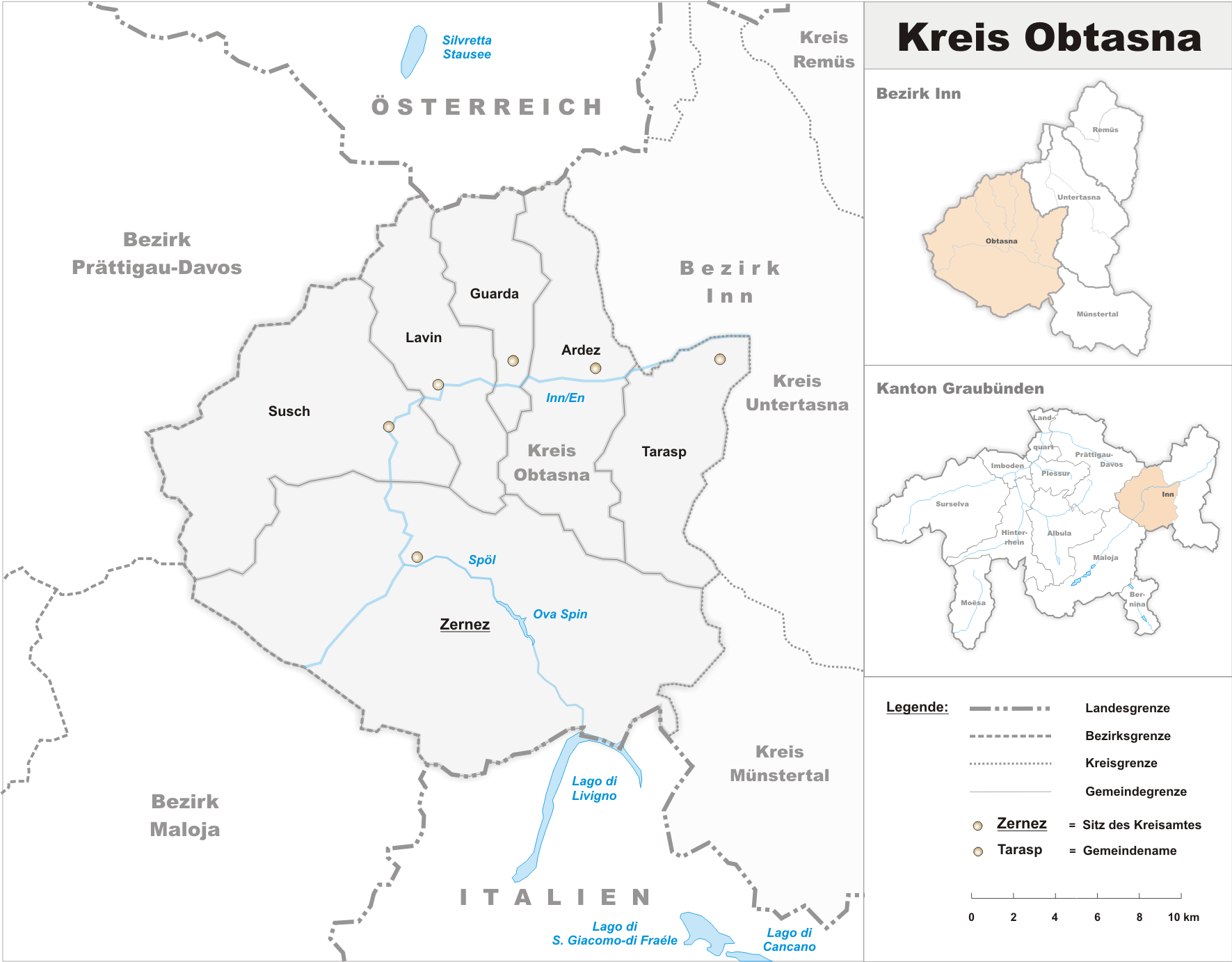 Municipalities in the circle of Obtasna